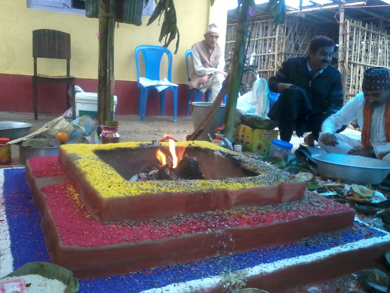 yagyakunda.